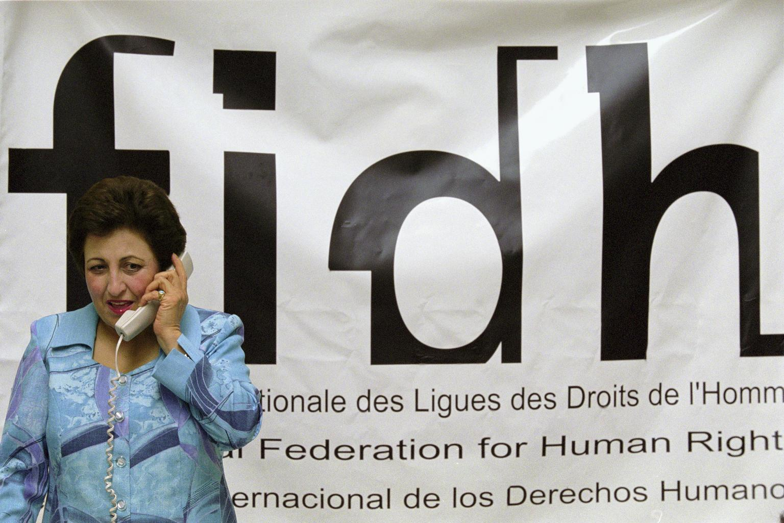 Shirin Ebadi at the FIDH headquarters